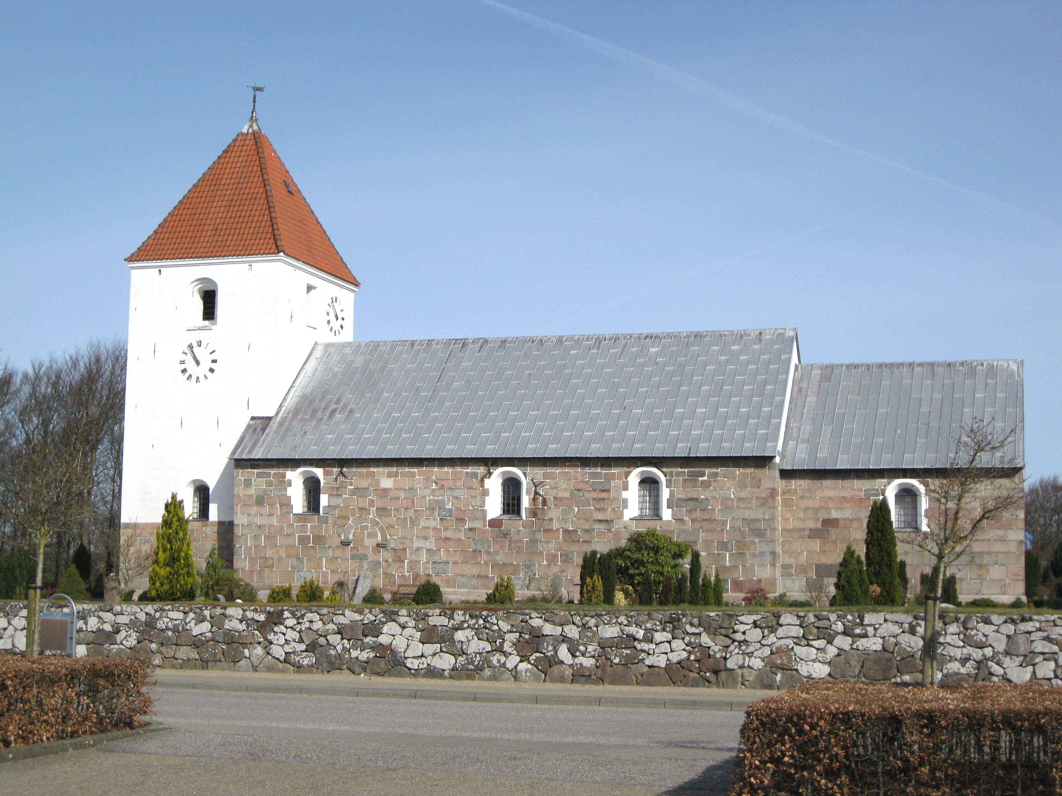 The church "Farsø Kirke" in the small town "Farsø". The town is located in North Jutland, Denmark.